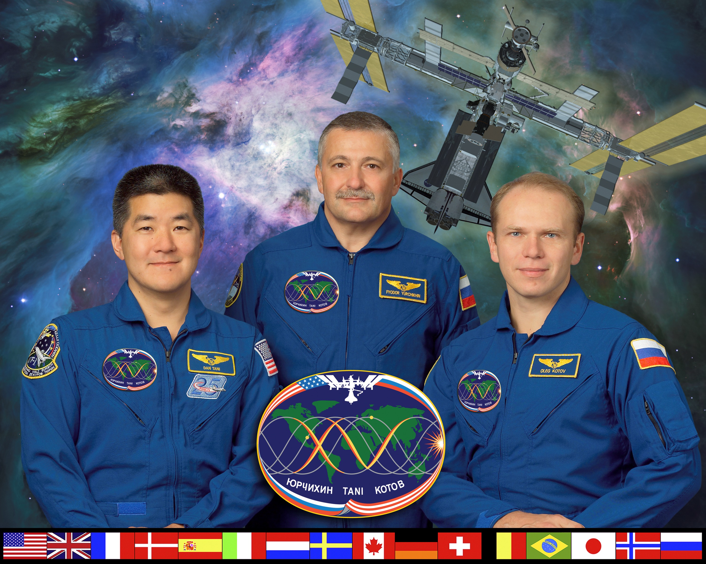 Expedition 15 crewmembers posed for photos at the conclusion of a Dec. 13 press conference at the Johnson Space Center. From the left are astronaut Daniel M. Tani, flight engineer for Expeditions 15 and 16; along with cosmonauts Oleg Kotov, flight engineer and Soyuz commander; and Fyodor Yurchikhin, commander. Kotov and Yurchikhin represent Russia's Federal Space Agency.